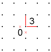 3 diagonally next to 0 in a Slitherlink puzzle